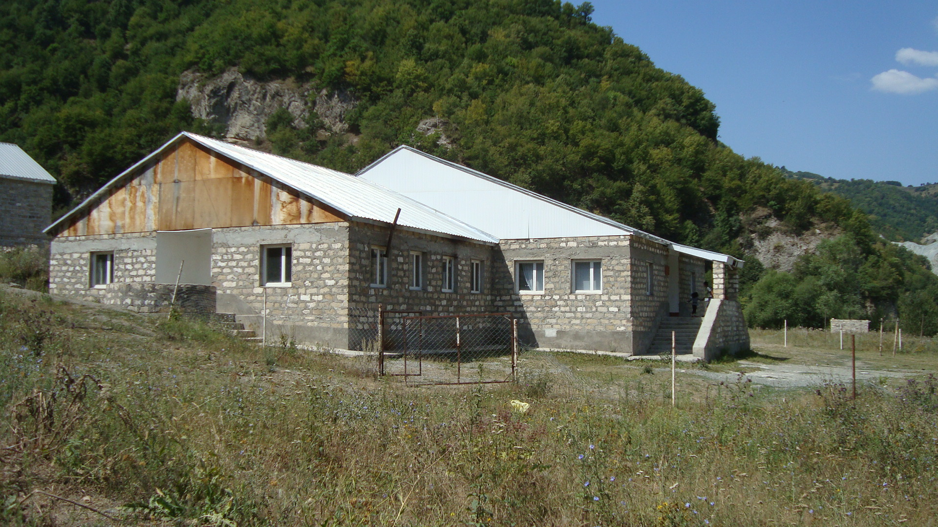 A school in the village Knaravan. Shahumian district, Republic of Mountainous Karabakh (Artsakh).